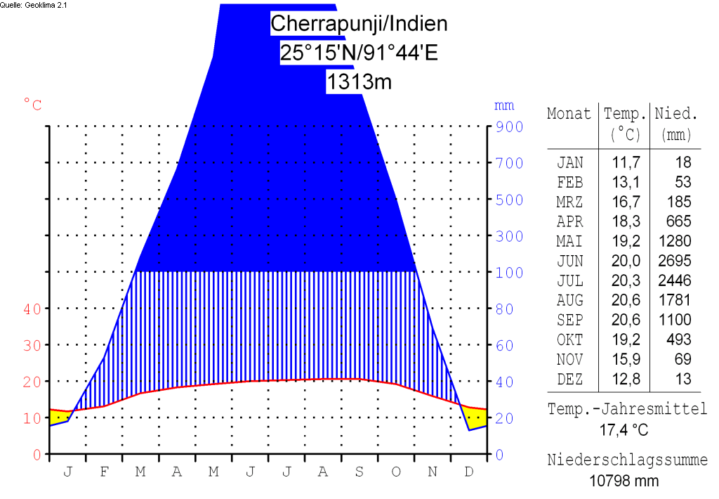 climate chart in the format by Walter and Lieth, metric, °Celsisus and millimeters, made with Geoklima 2.1